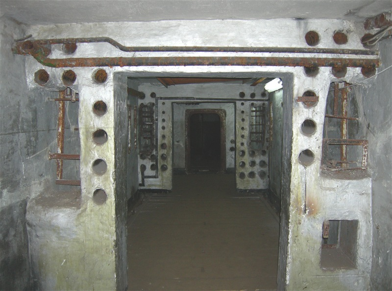 Corridor inside Plokštinė Soviet nuclear missile base.